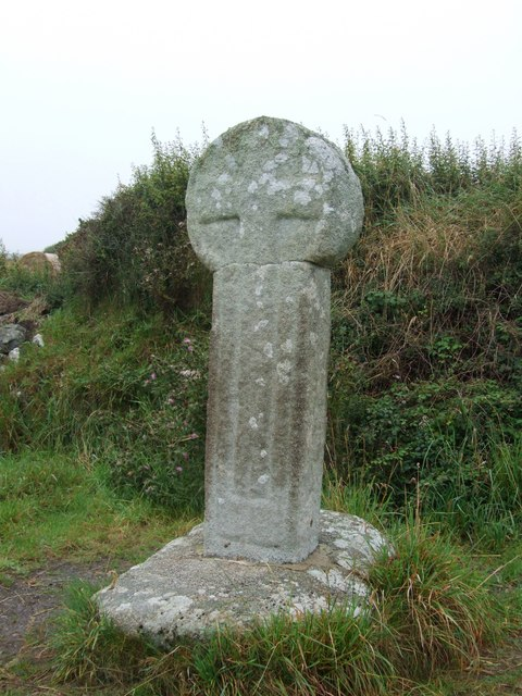 Mullion Cross Interesting stone cross on the coastal walk from Mullion.